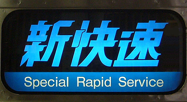 JR-West Special Rapid Service sign